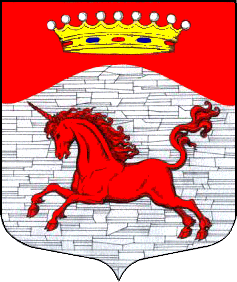 Coat of arms of the rural settlement of Opolie in the region of Leningrad, Russia.